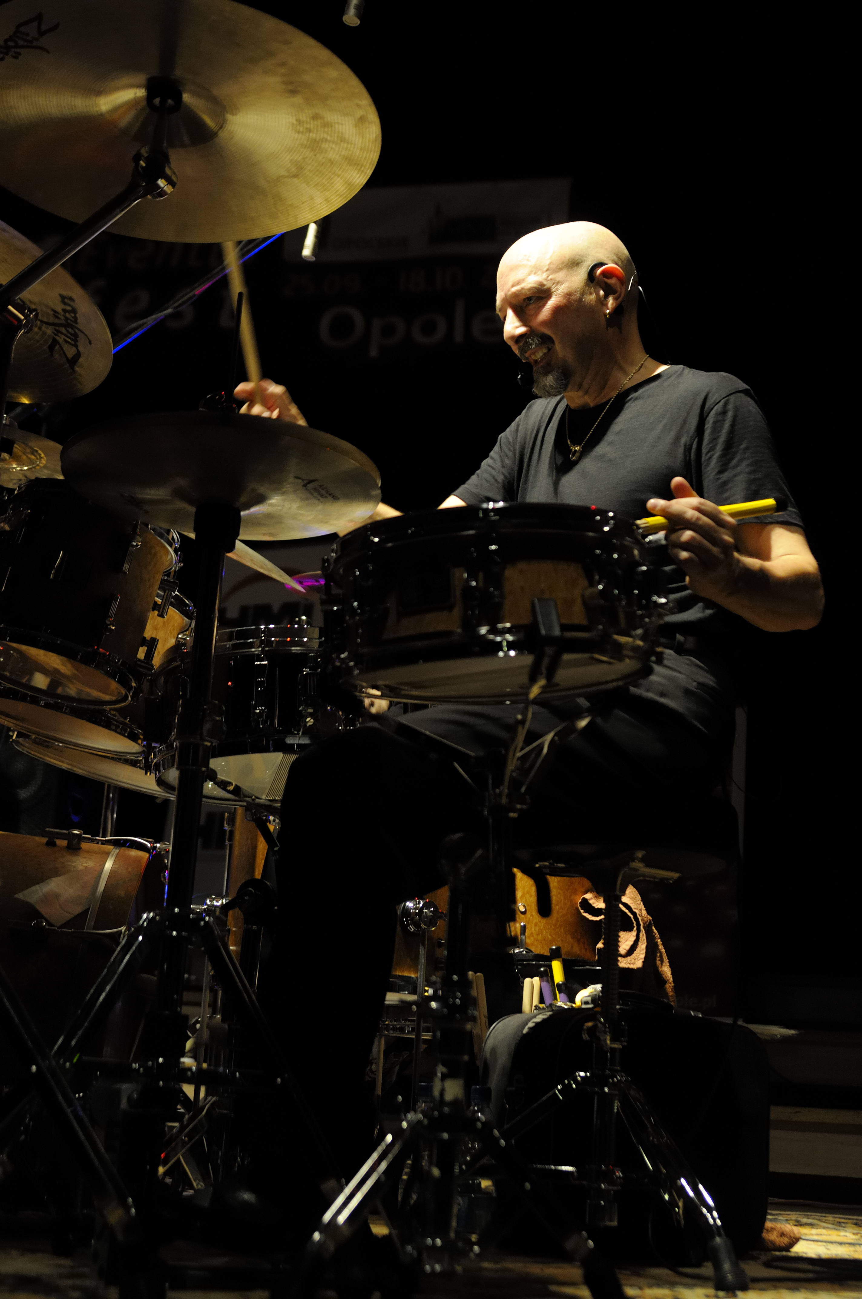 View all 12 photos from the clinic, concert and meet&greet